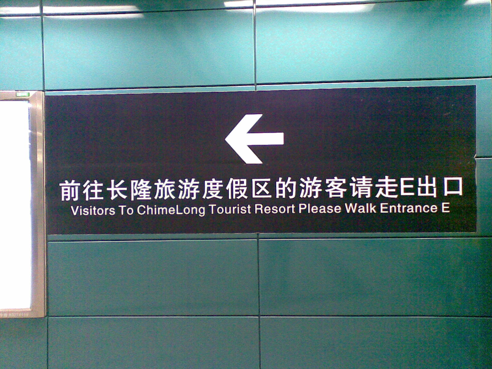 Metro Station Sign to inform ChimeLong Tourist Resort direction